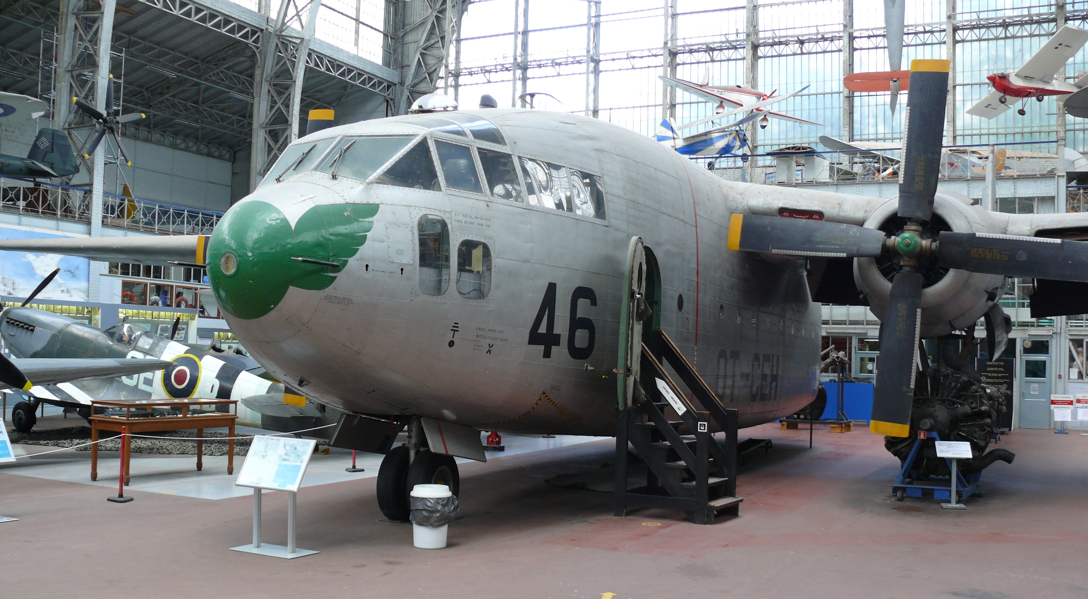 A Fairchild C-119 Flying Boxcar in the Royal Military Museum at the Jubelpark, Brussels. The Flying Boxcar was a post WW II American military transport aircraft